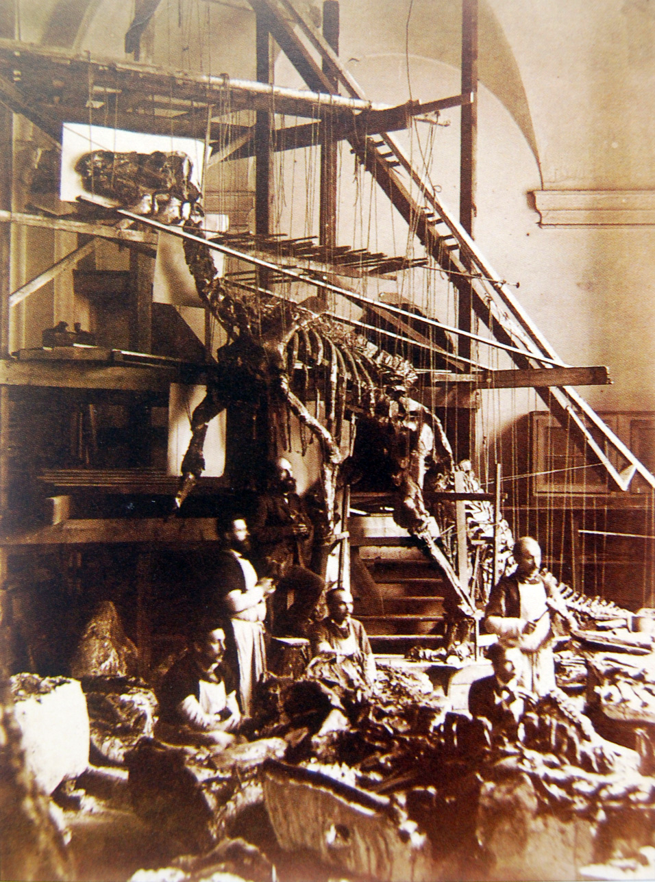 Workmen mounting the first Iguanodon bernissartensis skeleton in the St. George Chapel in Brussels, 1882. Because Belgium did not really possess a tradition in mounting vertebrate specimens, Louis Dollo’s men had to invent their own method. Although they successfully mounted a great number of specimens (who are now on display in the Brussels Museum of Natural History), their solution meant that unmounting the animals was near to impossible without physically damaging them. These days, the Brussels Iguanodons have become museum specimens in more than one way, illustrating the evolution of mounting such animals in museums in the nineteenth century.